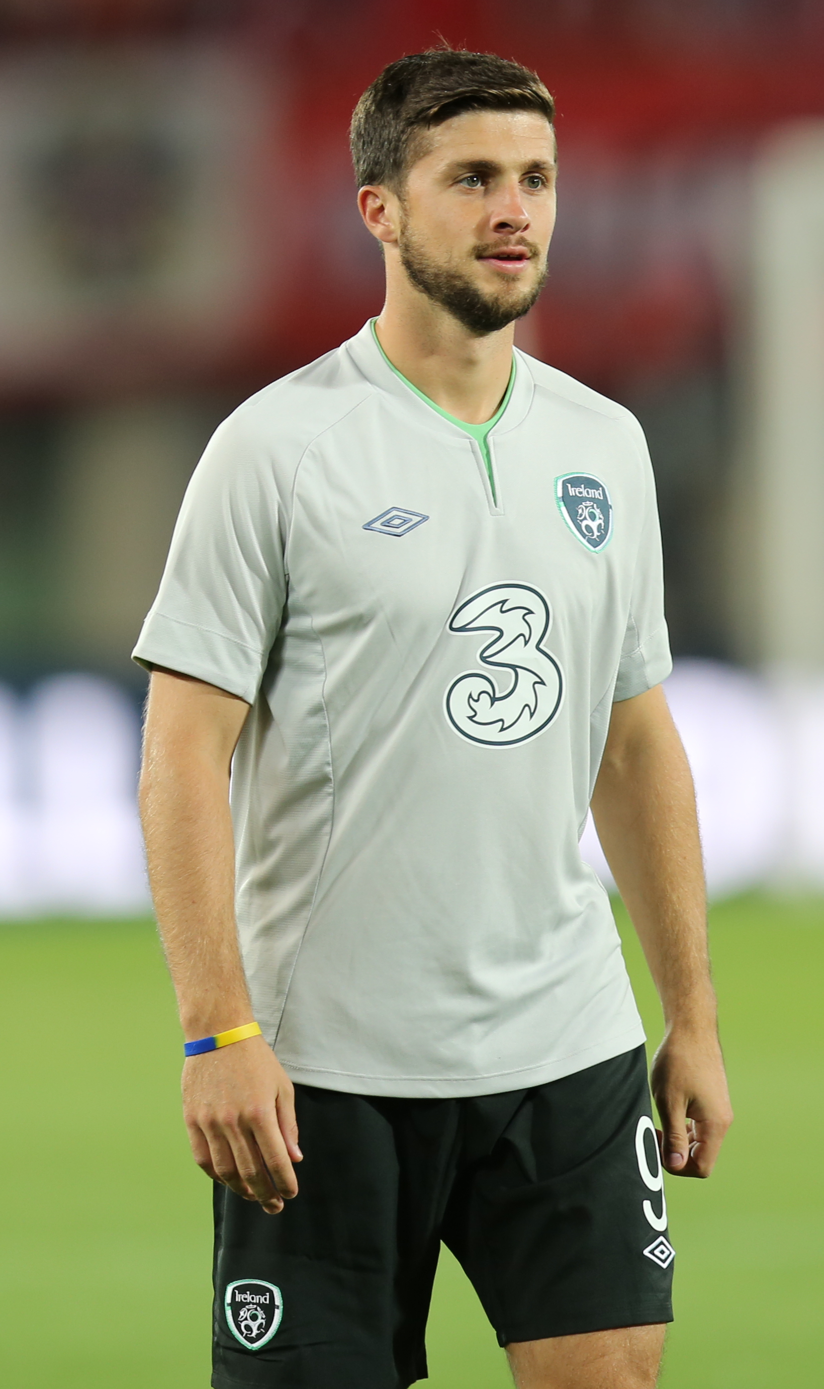 2014 FIFA World Cup qualification (UEFA), Group C: Republic of Ireland national football team at 10. September 2013 before the match against the Austria national football team (0:1) in the Ernst-Happel-Stadion in Vienna. Here: Shane Long, irish striker The making of this work was supported by Wikimedia Austria. For other files made with the support of Wikimedia Austria, please see the category Supported by Wikimedia Österreich.